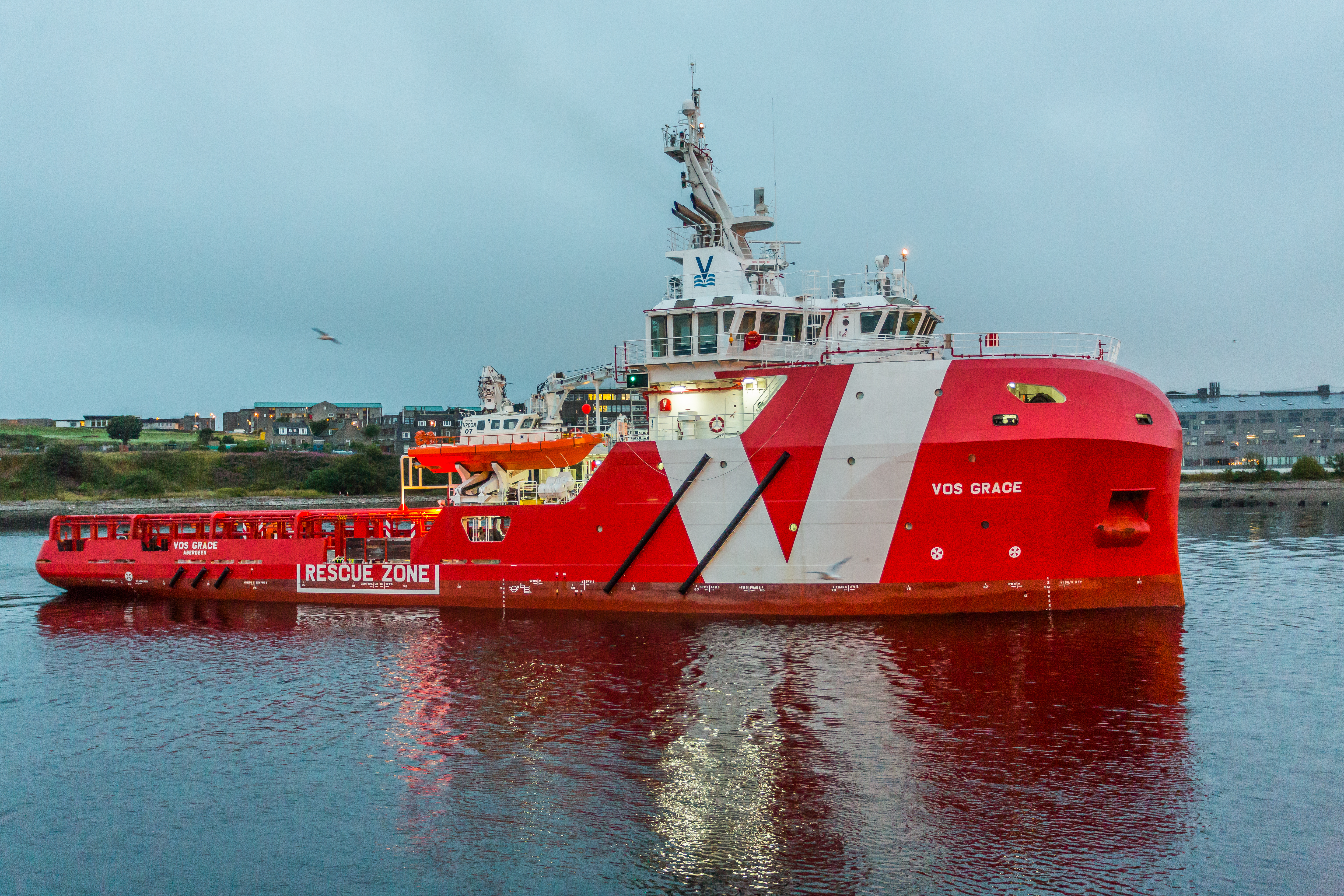 IMO: 9680542 MMSI: 235103026 Call Sign: 2HEO2 Flag: United Kingdom (GB) AIS Type: Standby Gross Tonnage: 1969 Deadweight: 1406 t Length × Breadth: 60m × 15m Year Built: 2015